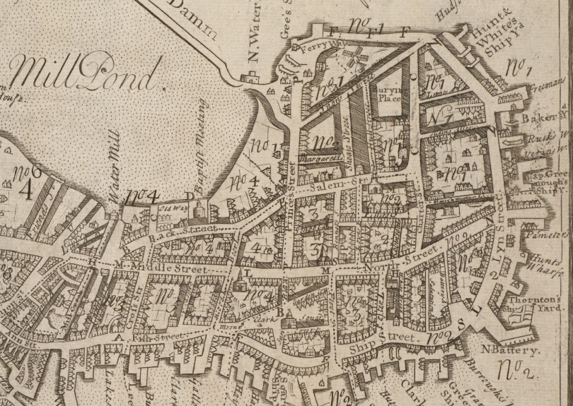 Detail of 1743 map of Boston by William Price, showing the North End and vicinity.